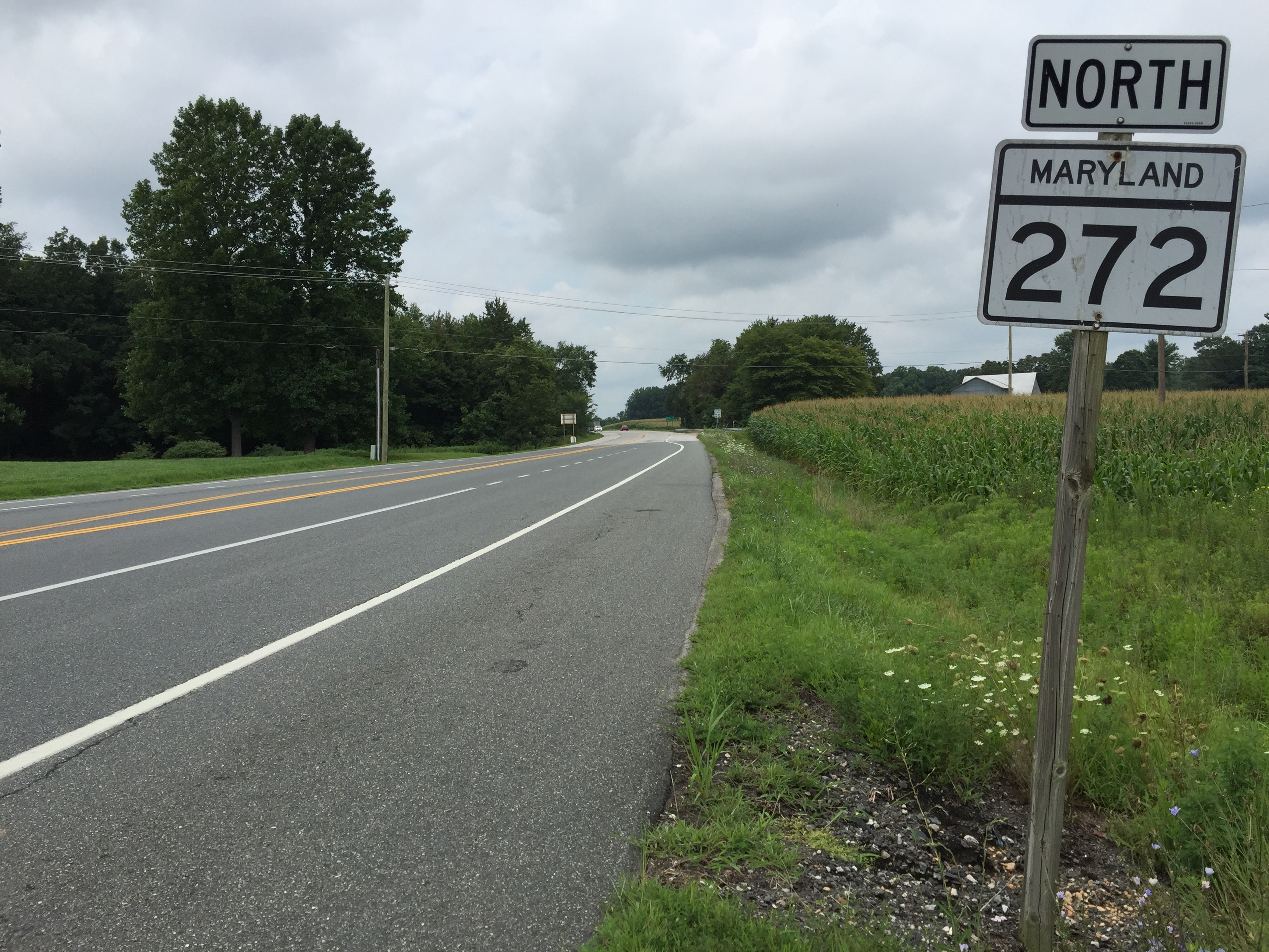 View north along Maryland State Route 272 (Chrome Road) at Maryland State Route 273 (Telegraph Road) in Calvert, Cecil County, Maryland